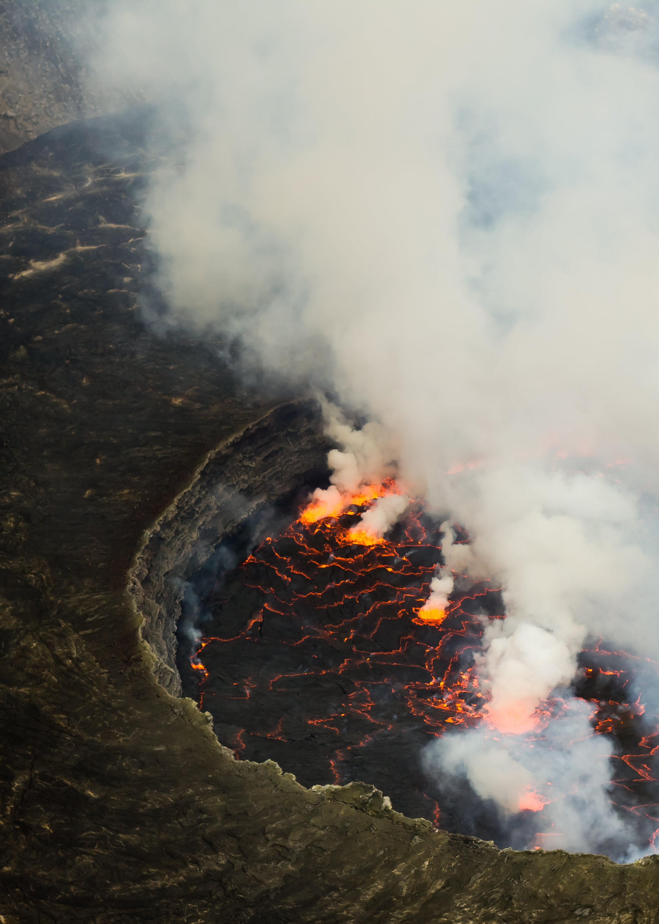 Lava Lake of the Nyiragongo Volcano in Virunga National Park in Eastern DRC